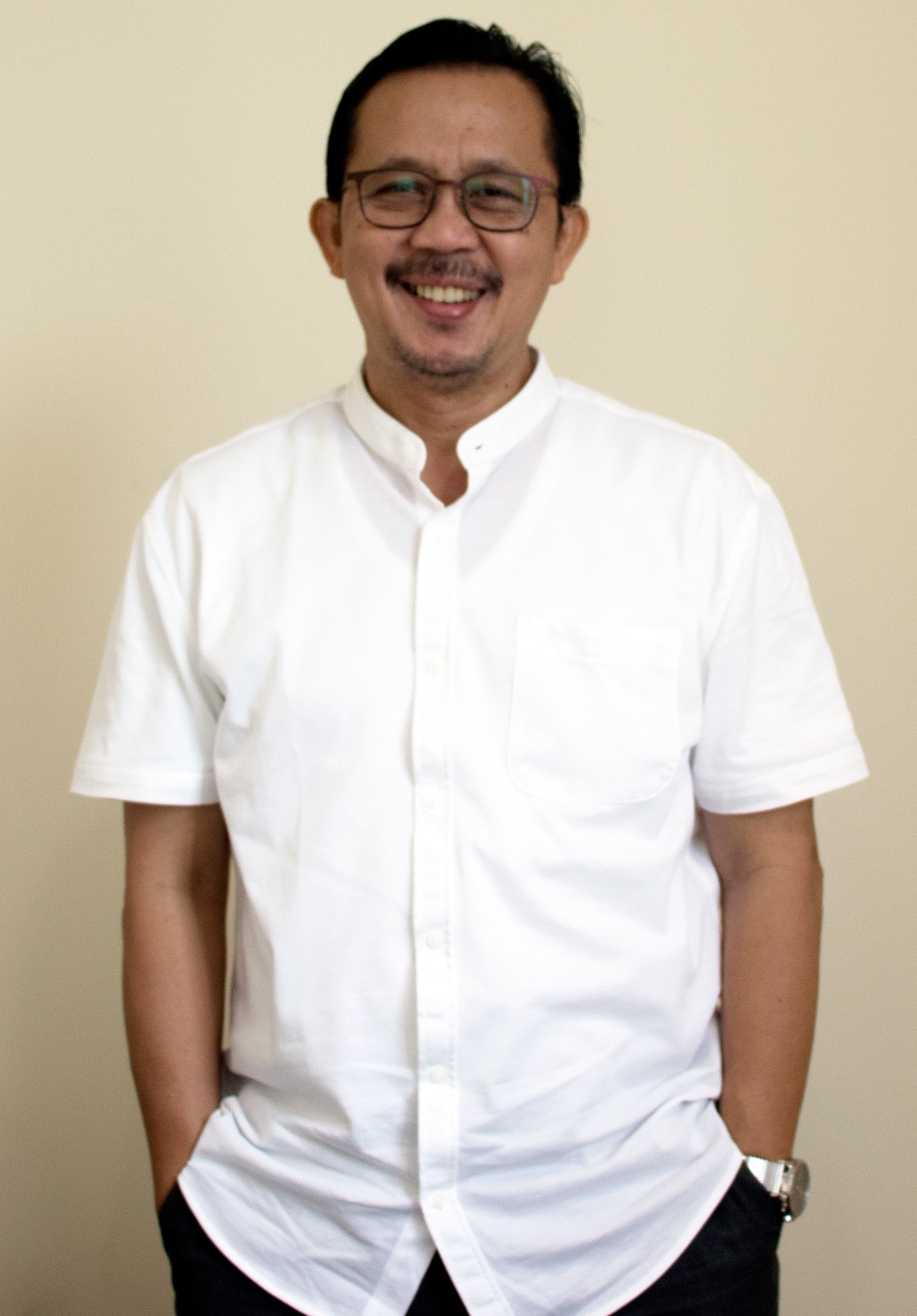 Bedi Zubaedi